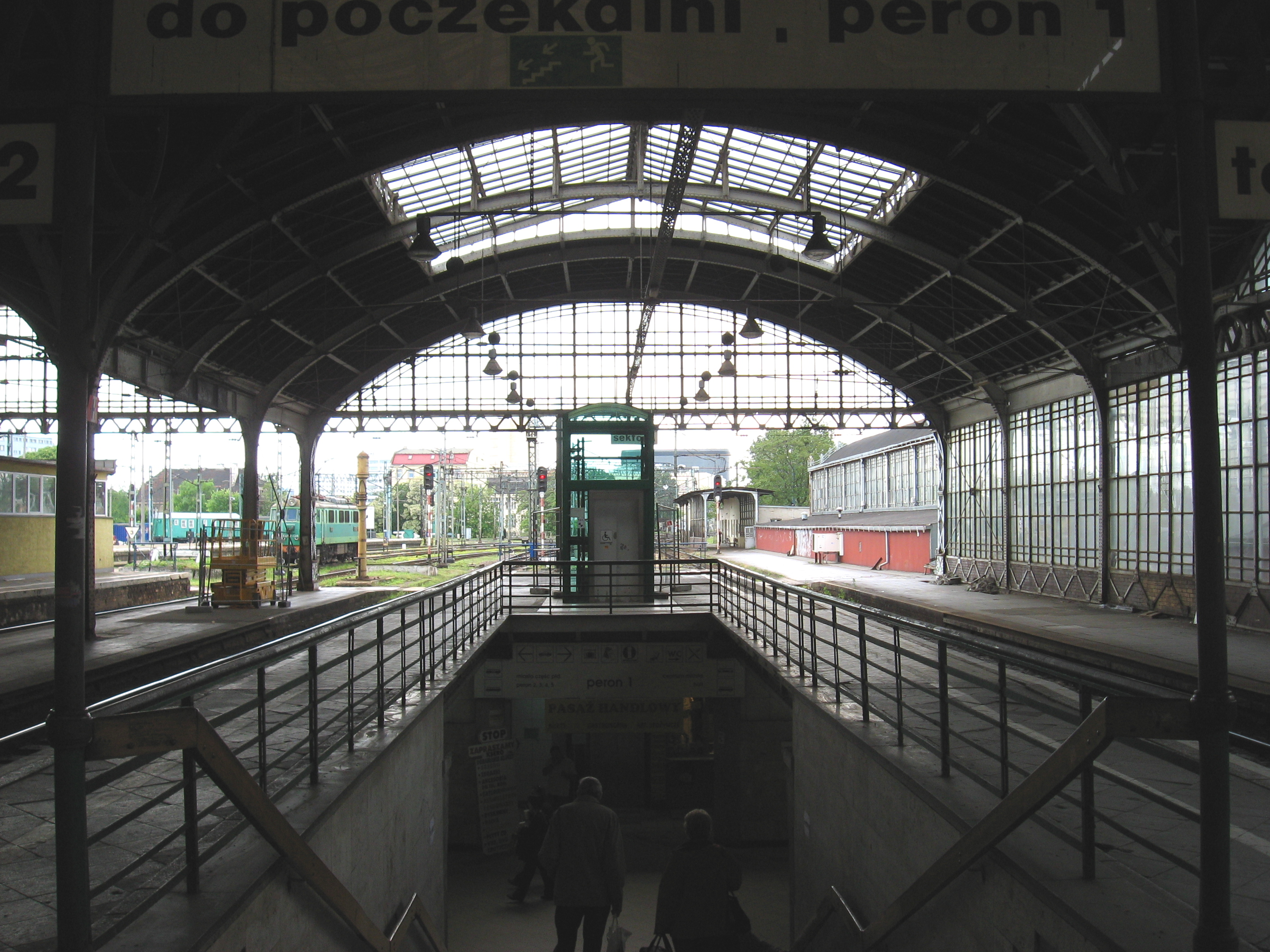 Main Train Station in Wrocław – platform 1.